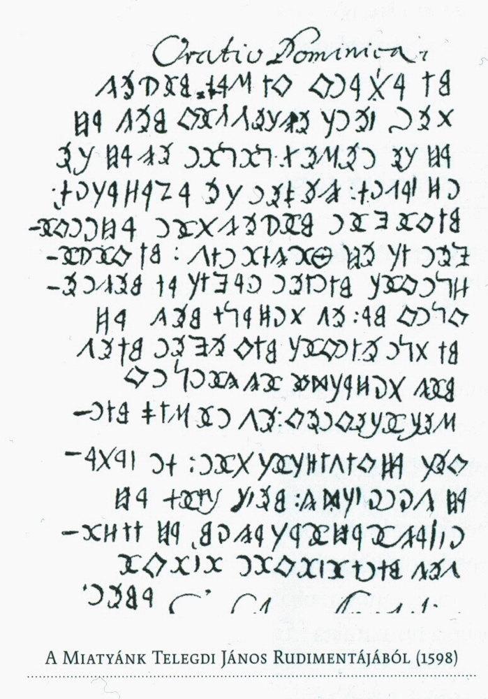 Our_Father_in_Old_Hungarian_Scriptlabel QS:Len,"Our_Father_in_Old_Hungarian_Script" label QS:Lhu,"A Miatyánk székely rovásírással"